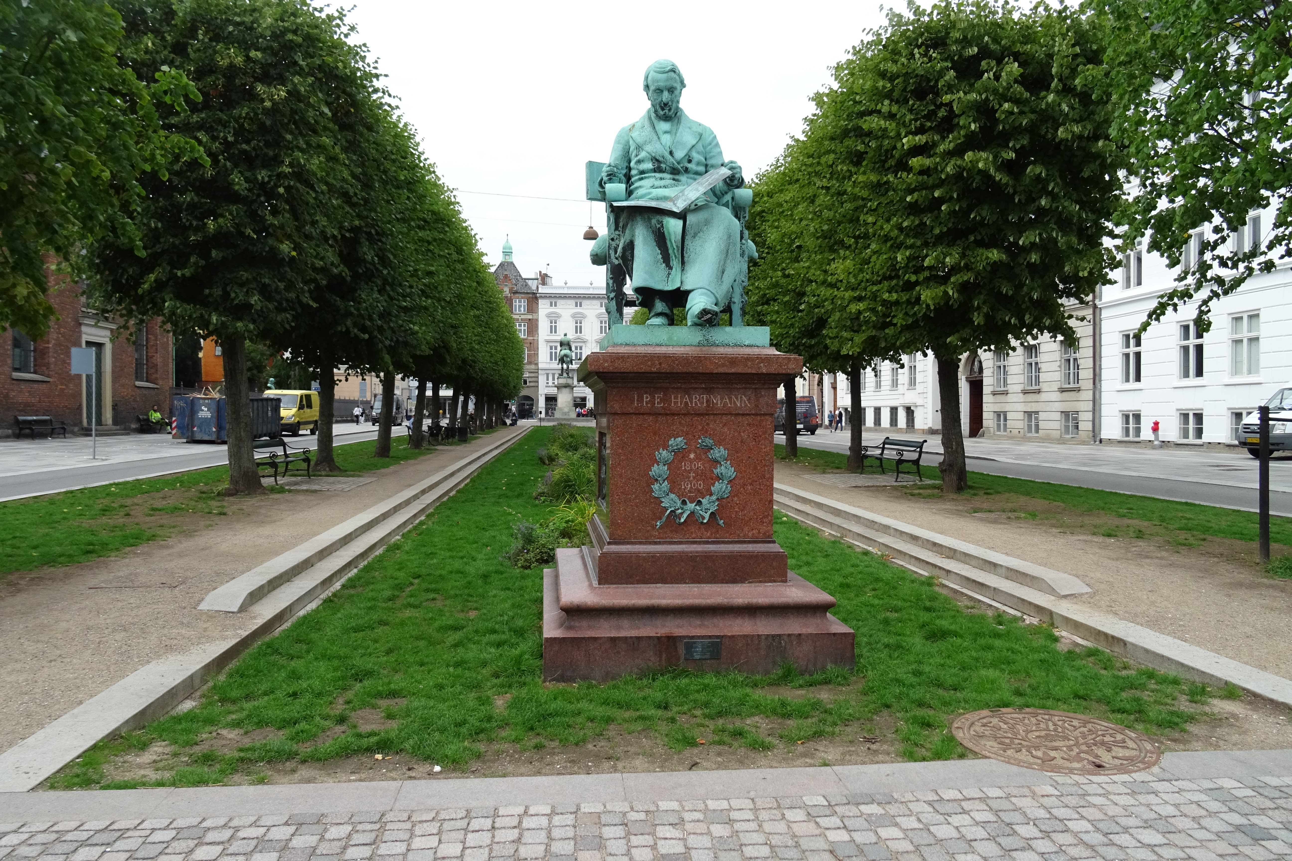 Statue of the composer Johan Peter Emilius Hartmann (14 May 1805 – 10 March 1900). The sculptor was August Saabye. St Anne's Place, Copenhagen